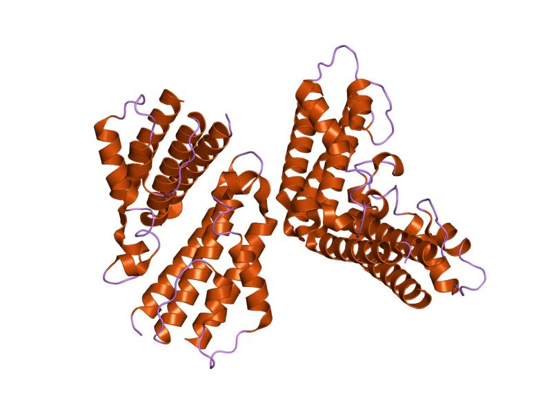 Cartoon representation of the molecular structure of protein registered with 1ufb code.